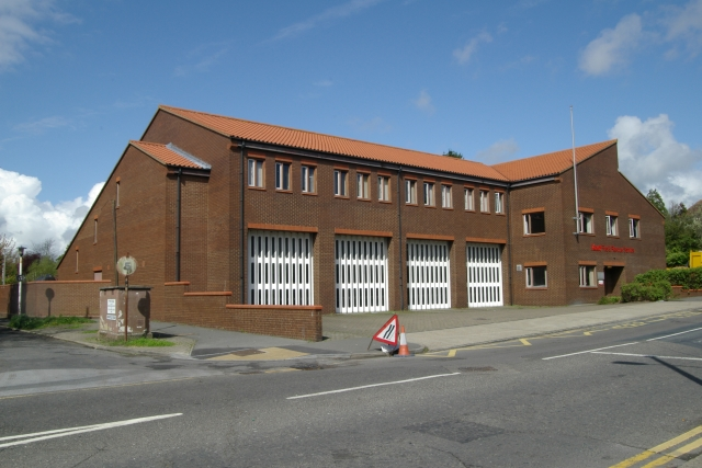 Folkestone fire station Folkestone fire station, Park Farm Road, Folkestone, Kent